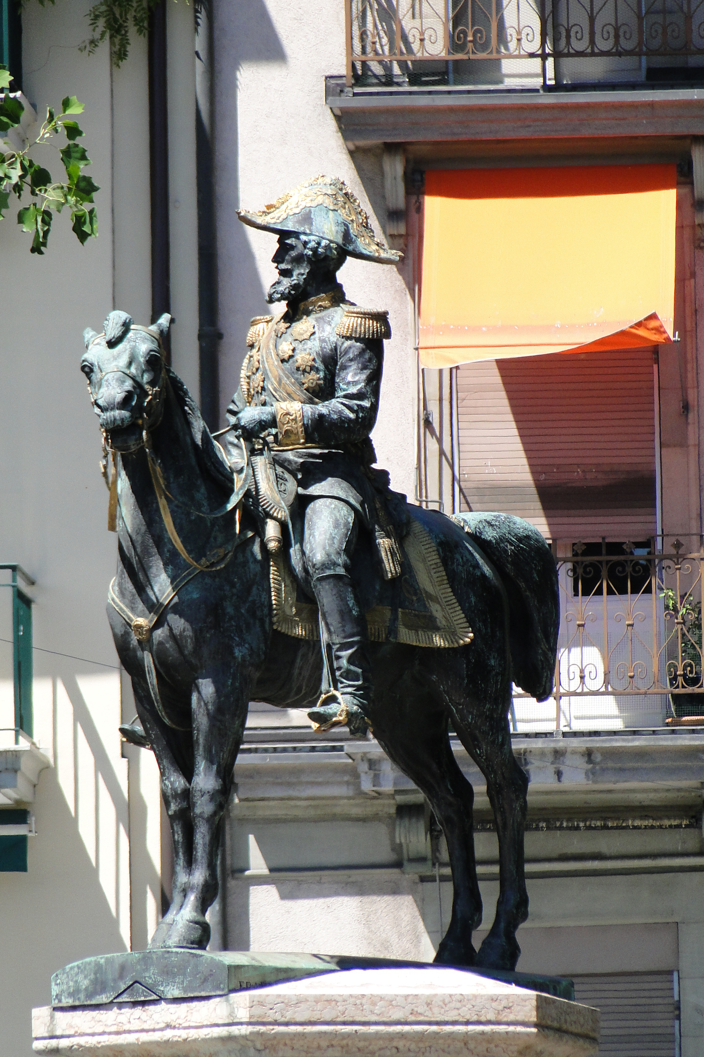 Equestrian Statue of Duke Charles II. of Brunswick, part of the Brunswick Monument - Geneva - Switzerland